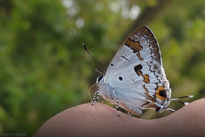 Chliaria othona in Garumara National Park, India